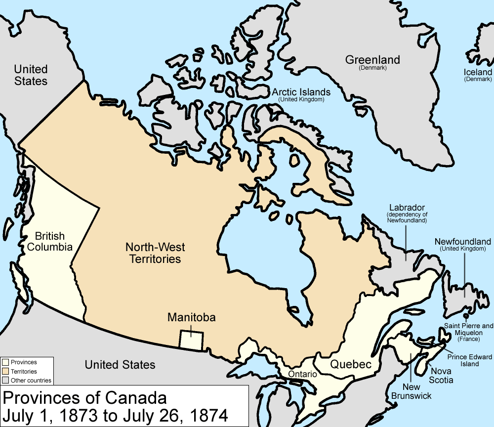 Map of the provinces and territories of Canada as they were from 1873 to 1874. On July 1 1873, Prince Edward Island joined as a province. On July 26 1874, the borders of Ontario were provisionally expanded north and west into the North-West Territories. Made by User:Golbez.